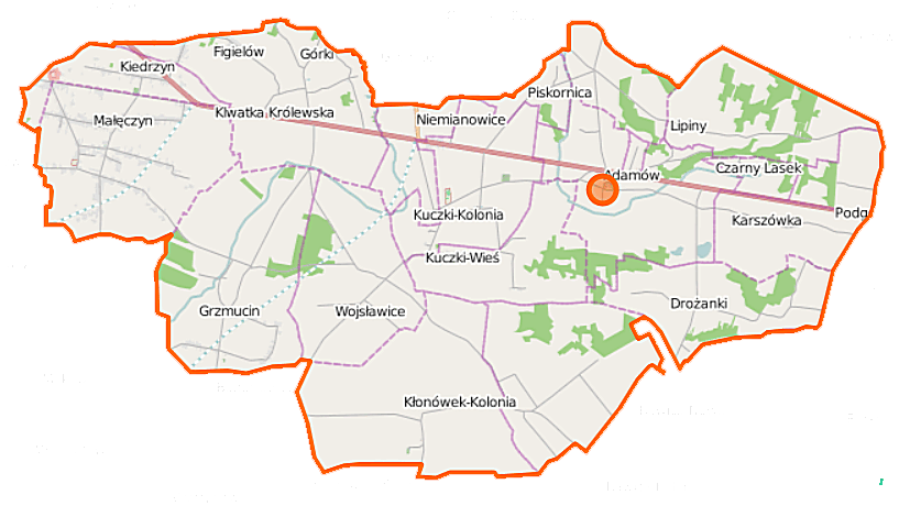 Map of Gmina Gózd, Poland This map of Gózd (gmina) was created from OpenStreetMap project data, collected by the community. This map may be incomplete, and may contain errors. Don't rely solely on it for navigation. Border coordinates51.405221.2273←↕→21.454951.3265